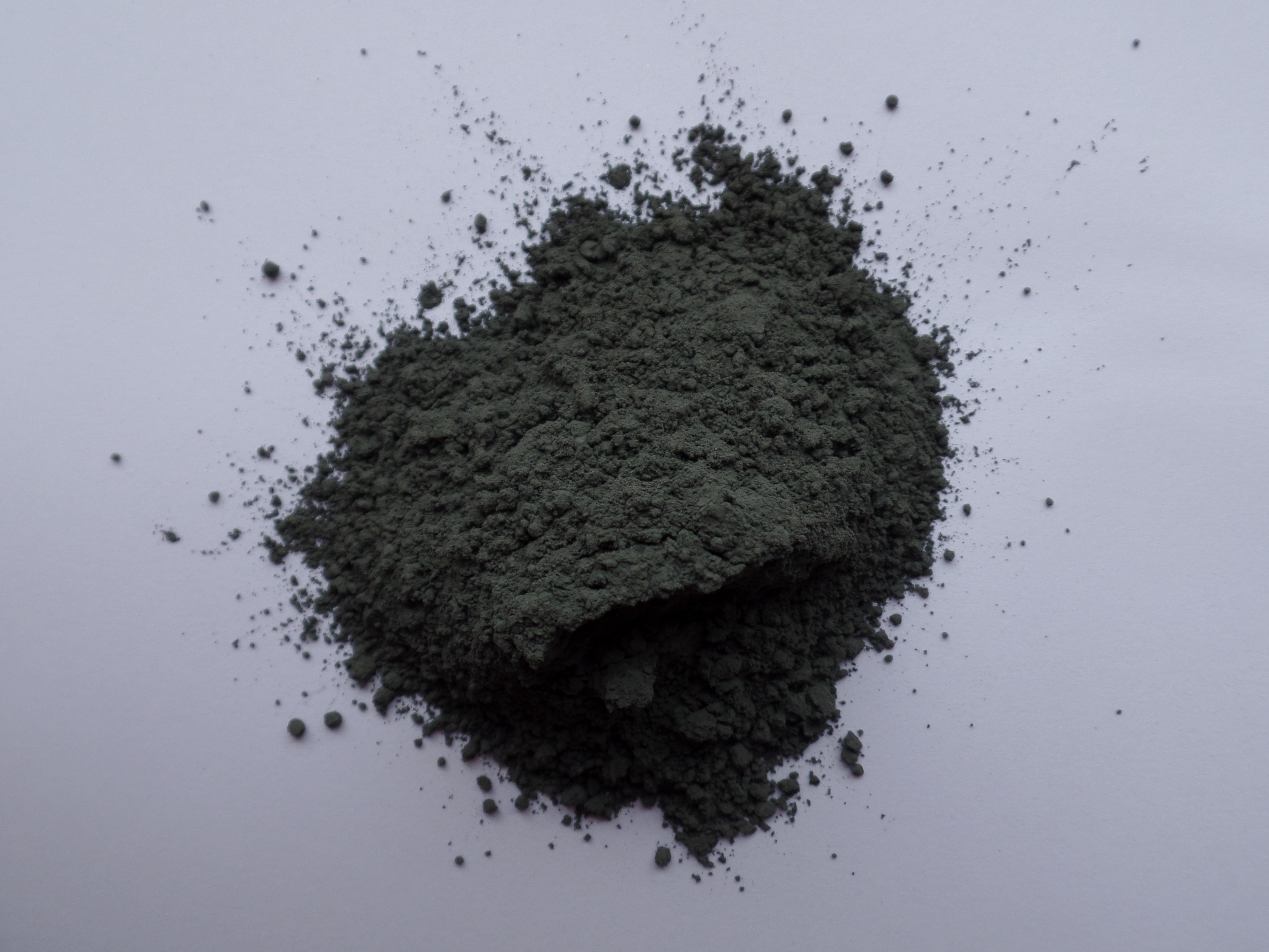 Nickel (III) oxide powder